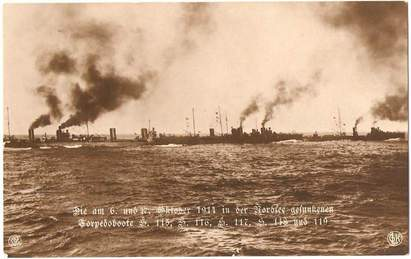 The German Seventh Half-Torpedo Boat Flotilla in 1911